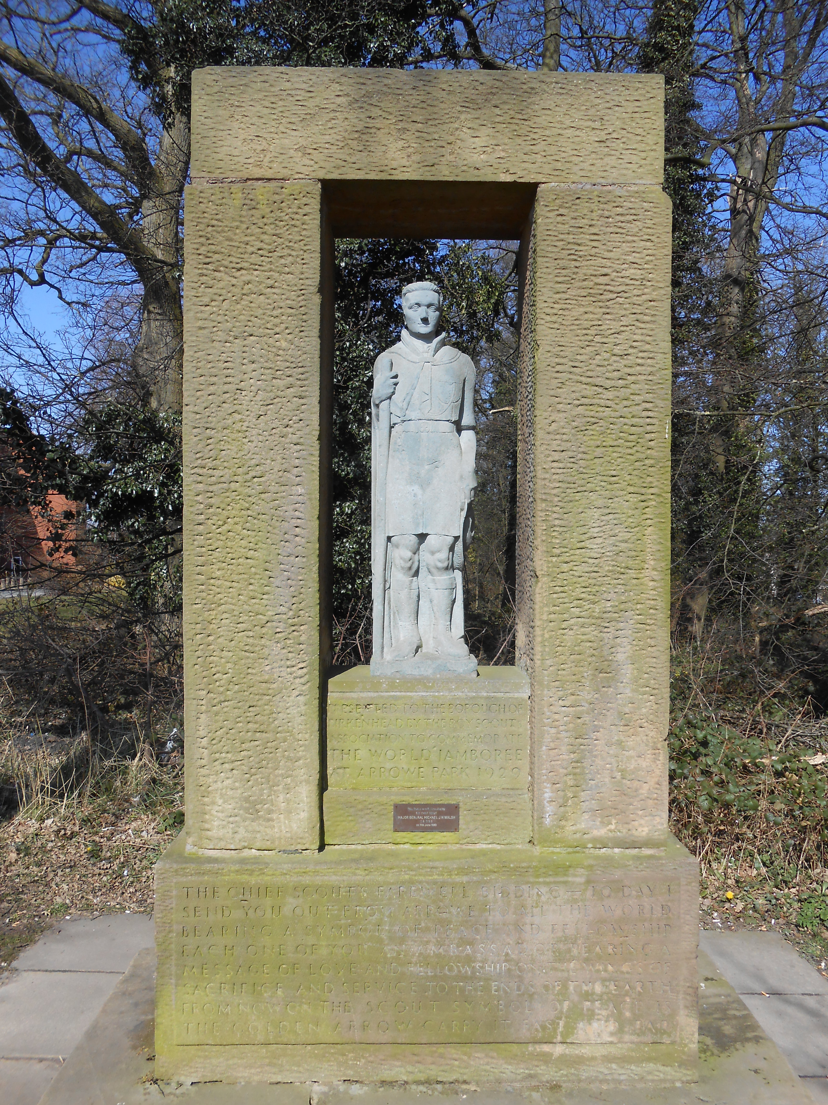 Monument to the 3rd World Scout Jamboree at Arrowe Park, Wirral, Merseyside, England. Situated in what is now the grounds of Arrowe Park Hospital, near the entrance on Arrowe Park Road.